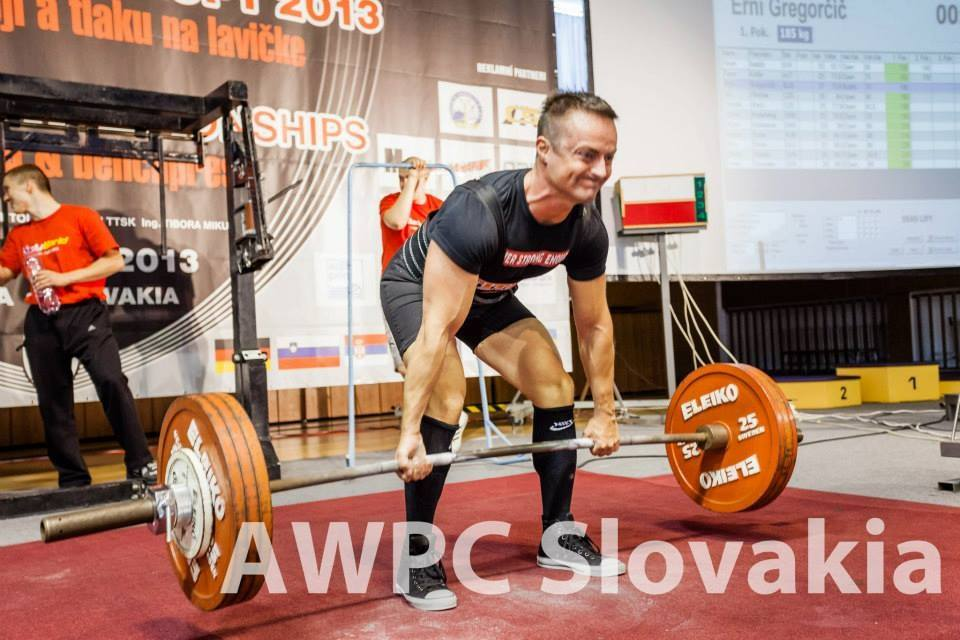 Erni Gregorcic at the 2013 European Championships in Trnava, Slovakia.